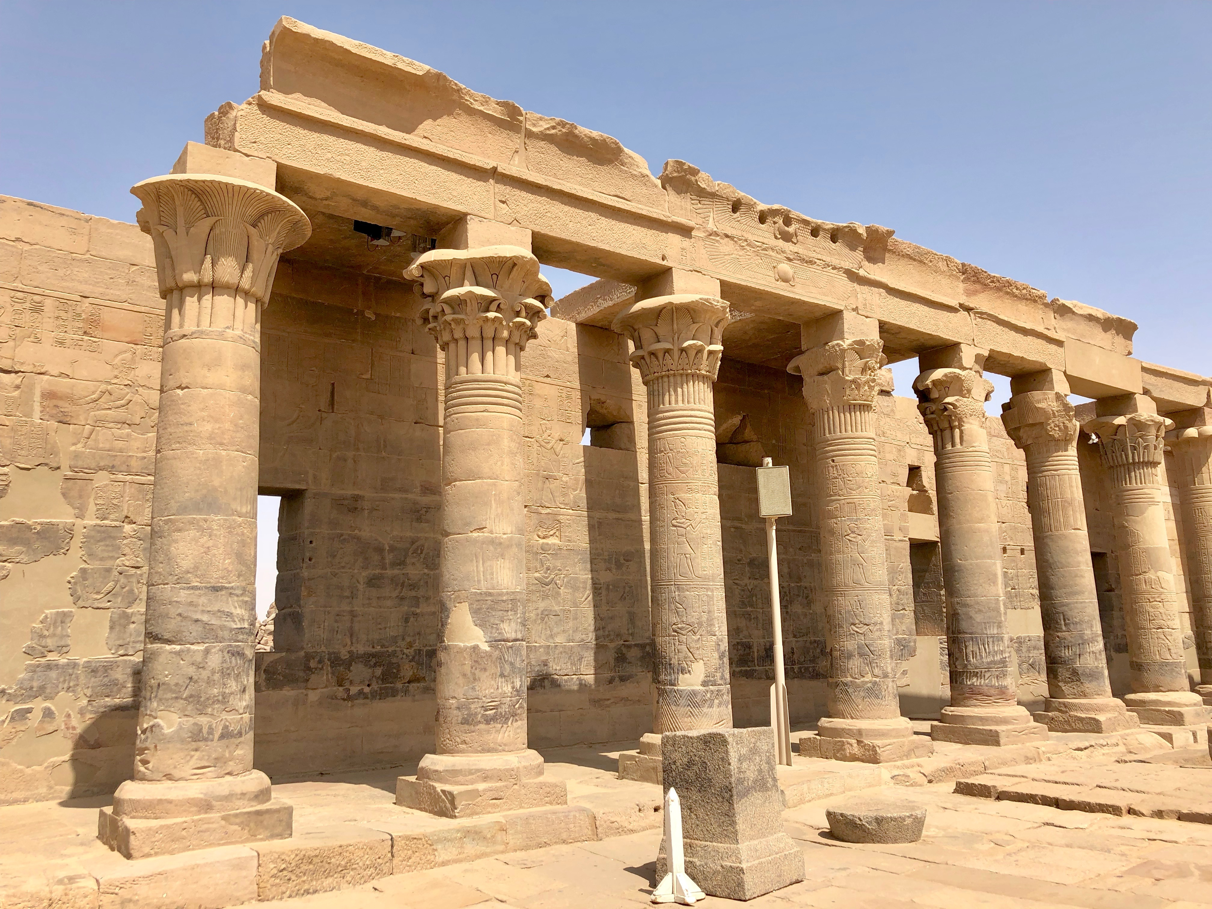 West Colonnade, Philae Temple Complex, Agilkia Island, Aswan, AG, EGY